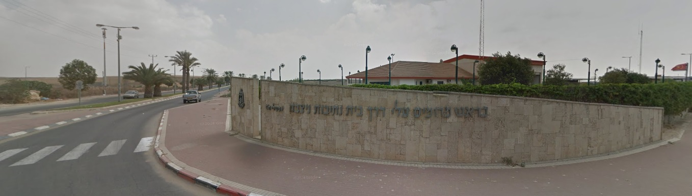 One of the city of Netivot entrances. You can see a verse from the book of Proverbs in it: "On the top of high places by the way, where the paths meet, she standeth" (transcription "Berosh meromim ale da'rech bet netivot nitzava")